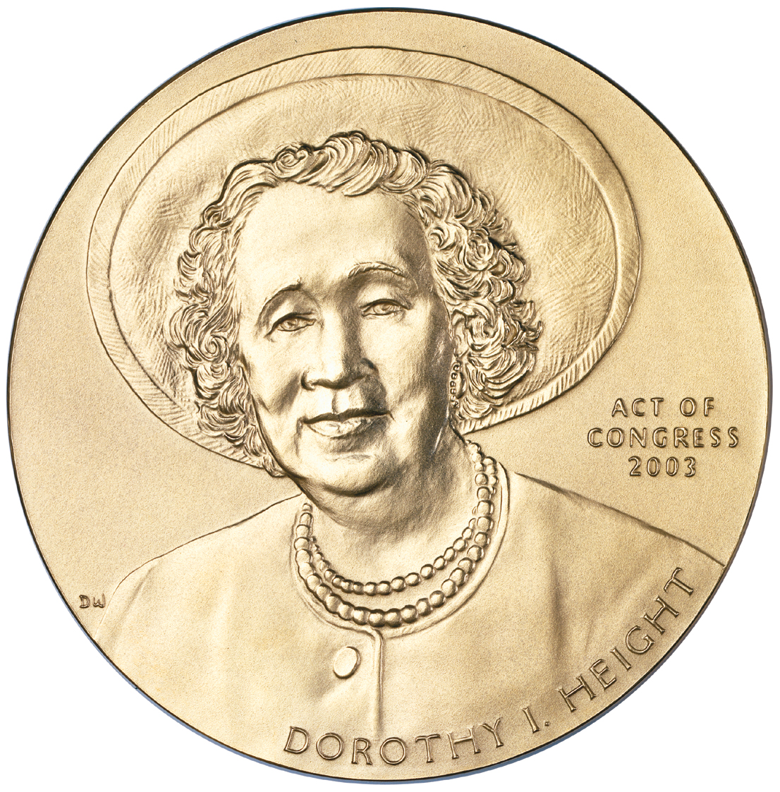 Congressional Gold Medal awarded to Dorothy Height